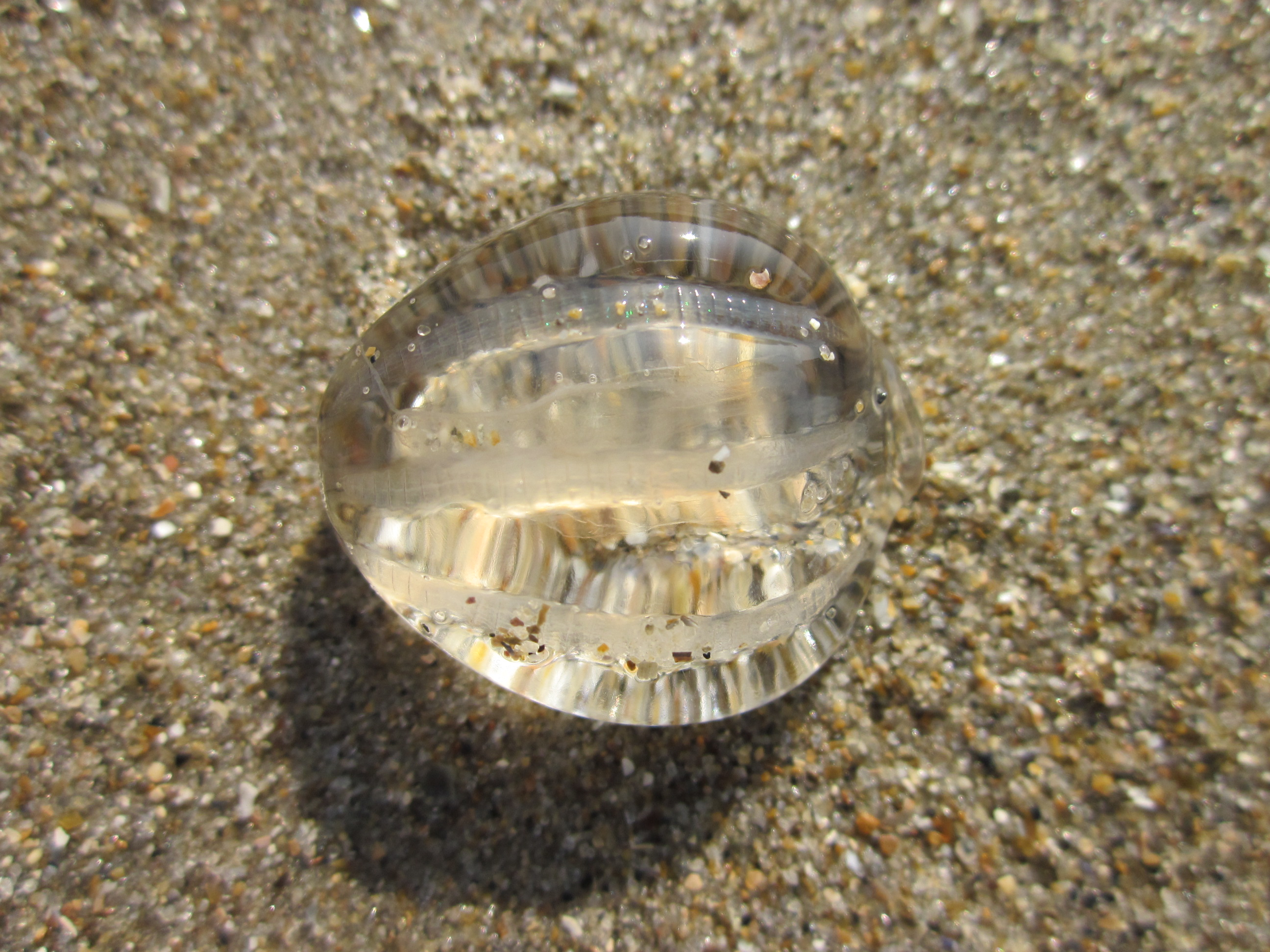 Pleurobrachia pileus, sea gooseberry on Blankenberge beach, Belgium